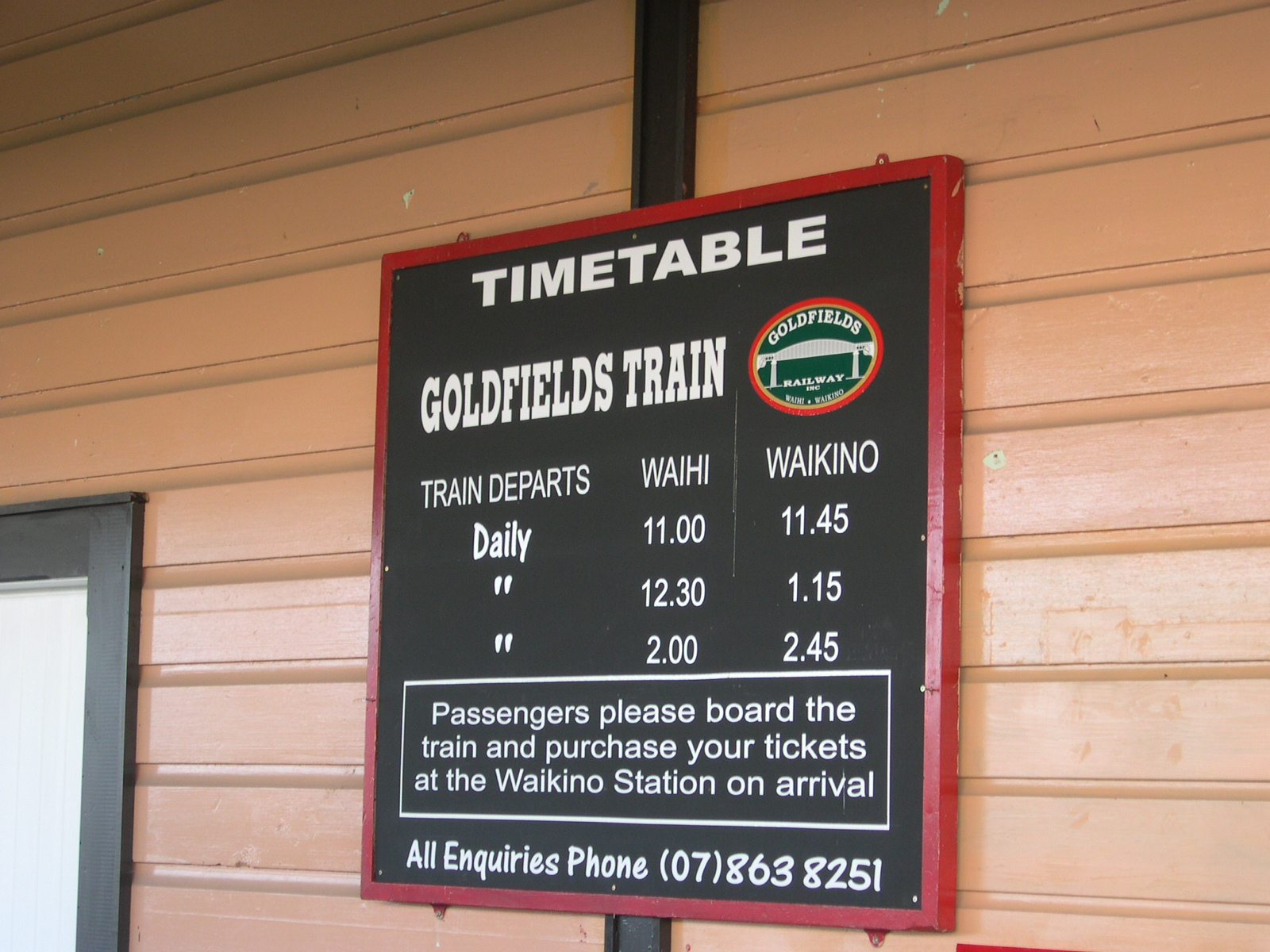 Timetable in Train Station Waihi, Goldfields Railway Inc., North Island New Zealand